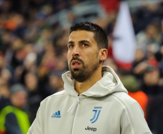 German association football player Sami Khedira on 6 November 2019, during the 2019/20 UEFA Champions League group stage match between Juventus and Lokomotiv in Moscow.